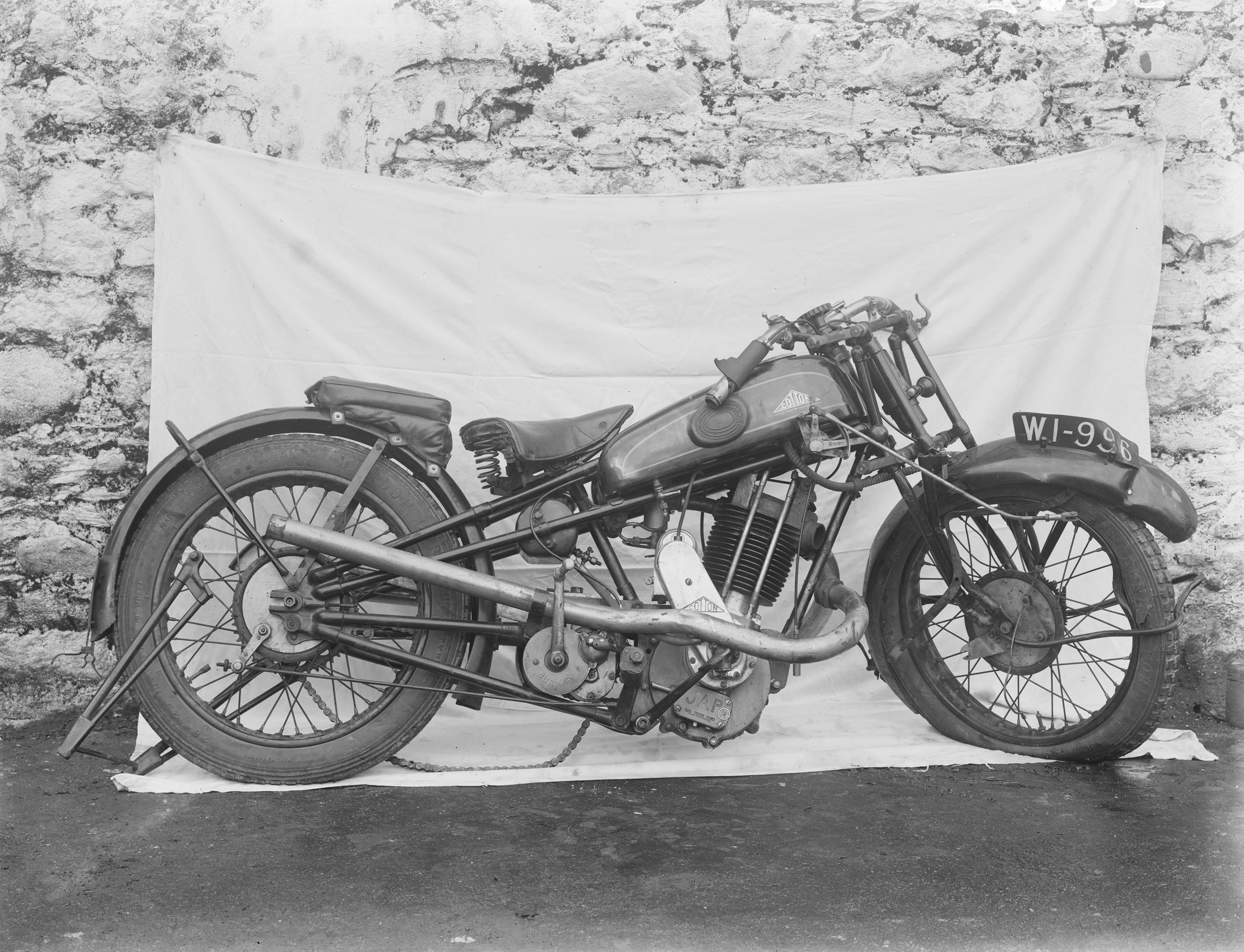 Not a good start to the year 1930 for the owner of this Cotton motorbike! This photo was taken at John Kelly's garage on Catherine Street, Waterford. Date: 3 January 1930 NLI Ref.: P_WP_3662